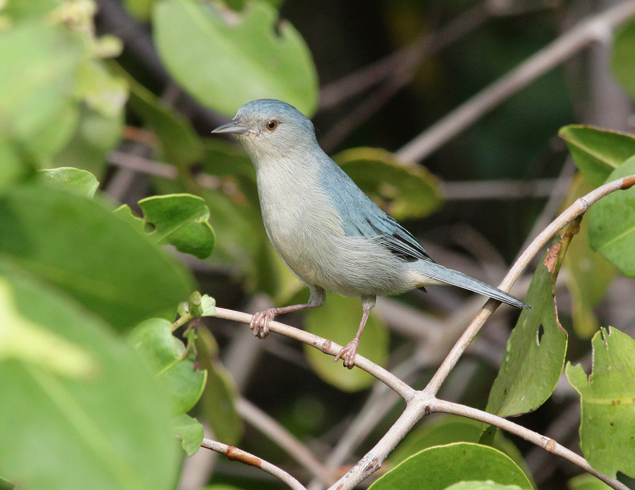 Bicolored Conebill (Conirostrum bicolor) Aracaju, Sergipe, Brazil